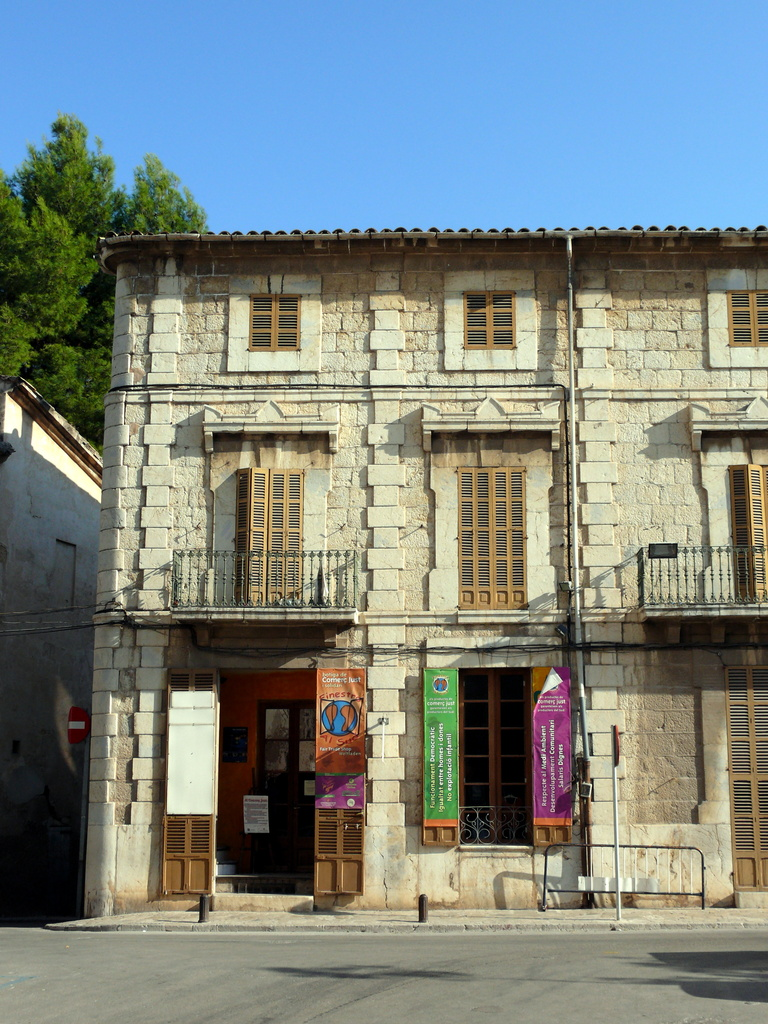 Ca ses Domingues, Inca(Mallorca)